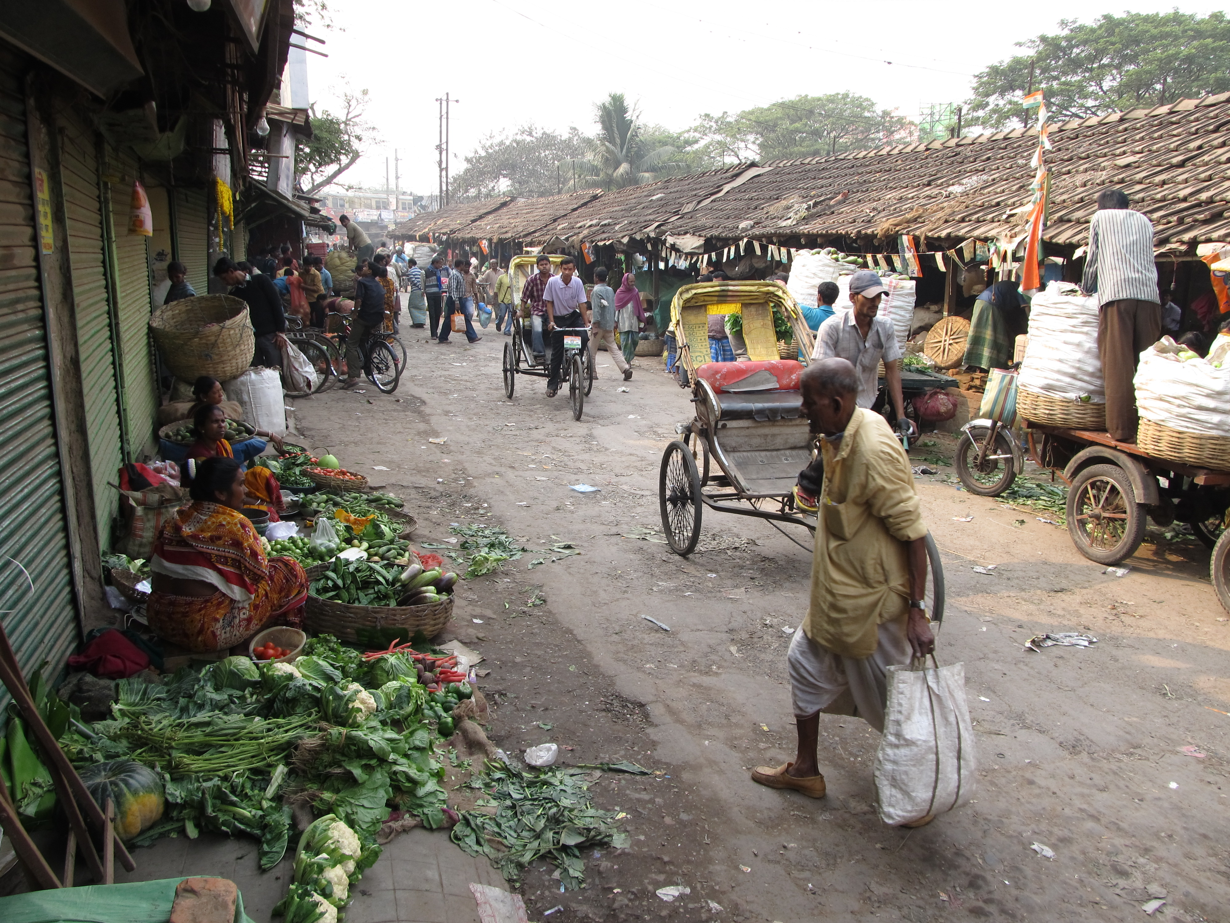 Photograph taken at Kolkata.